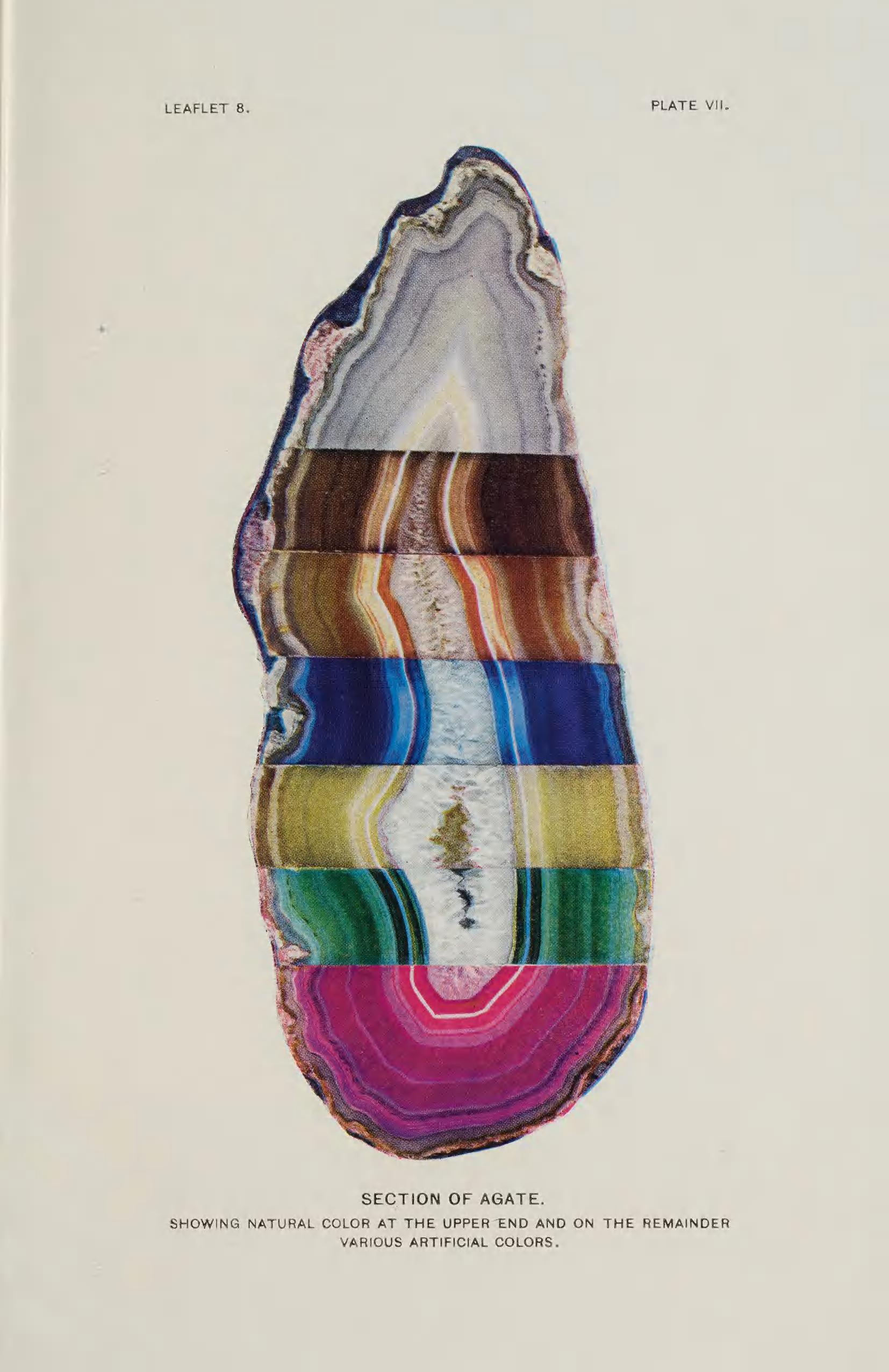 Agate, physical properties and origin /